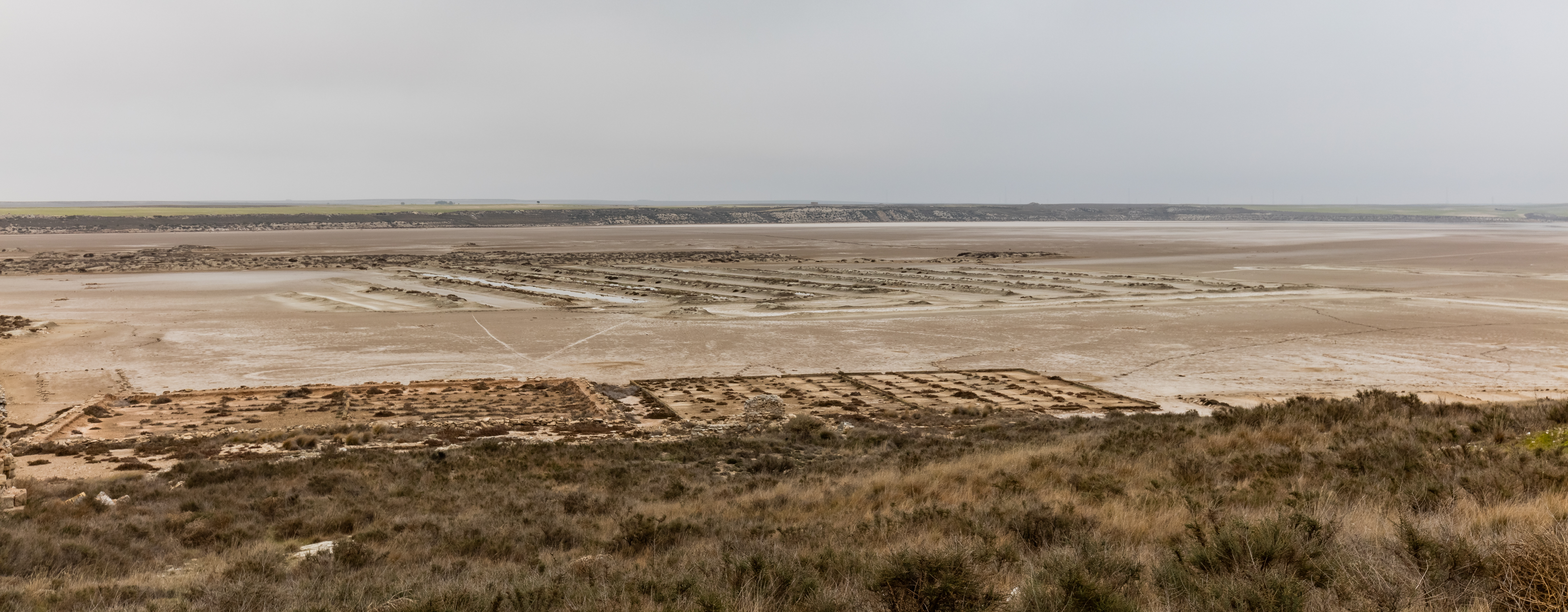 Salina de la Playa, Sástago, Zaragoza, Spain